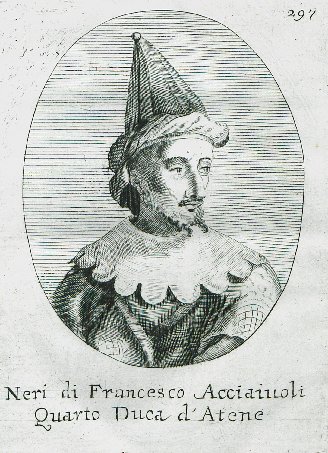 Illustration from Atene Attica Descritta da suoi Principii sino all’acquisto fatto dall’Armi Venete nel 1687…, Venice, Antonio Bortoli, 1695 edition, by Francesco Fanelli